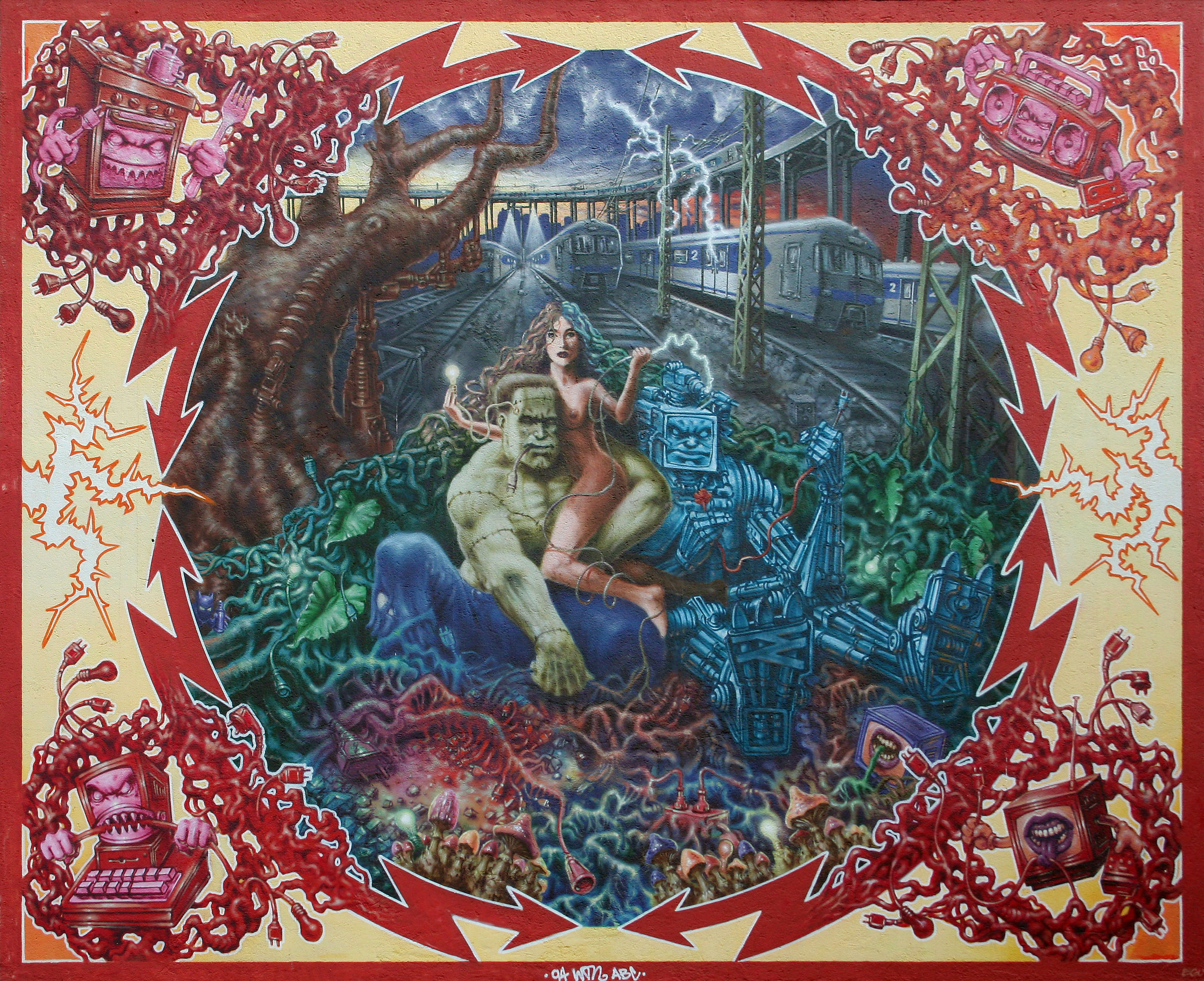 Graffiti on the wall to the Elisabethmarkt in Munich, sprayed by Munich's Spraycan Artist Markus Müller aka WON, member of the artistgroup ABC